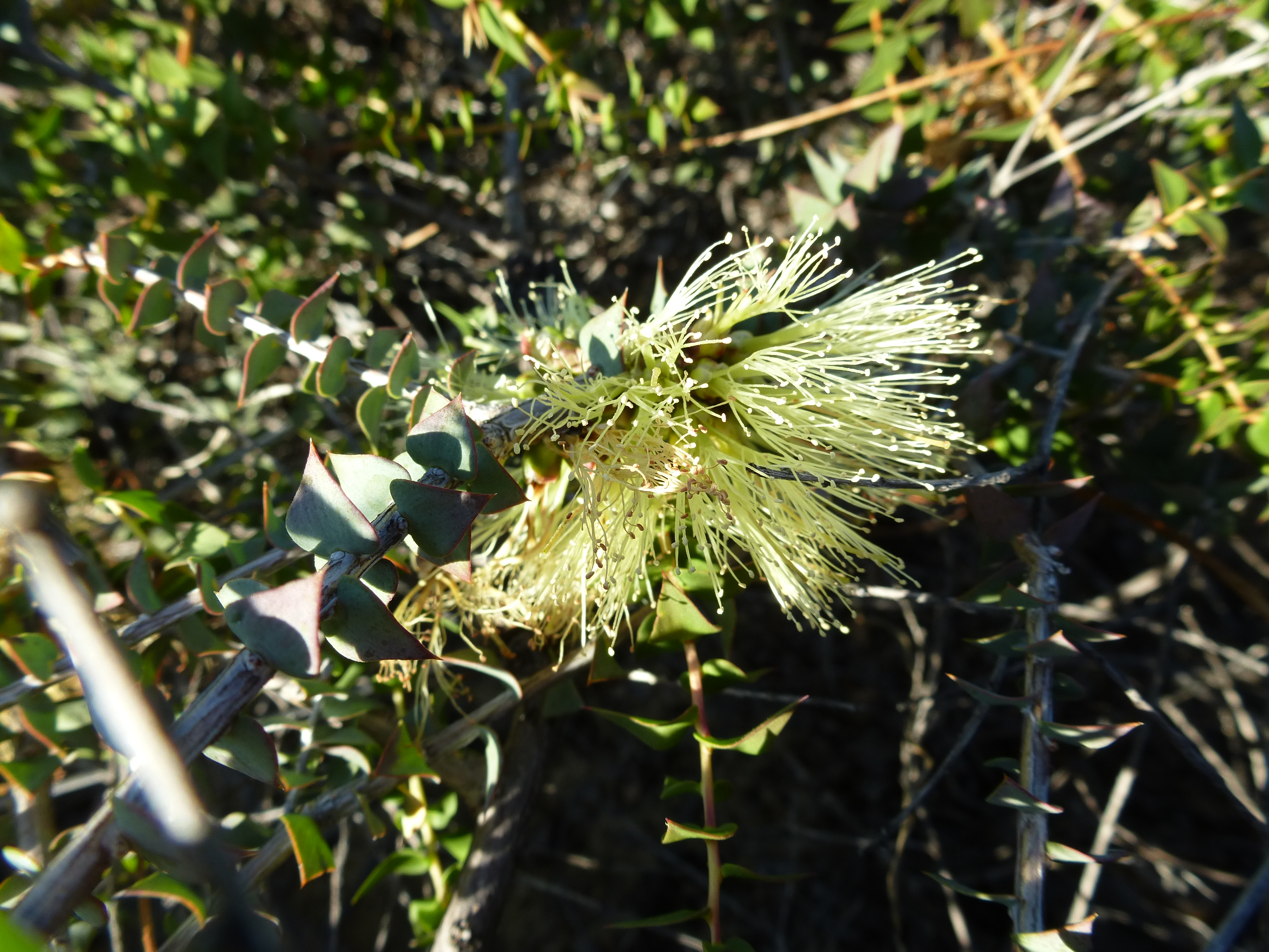 Melaleuca longistaminea growing at Red Bluff, near Kalbarri